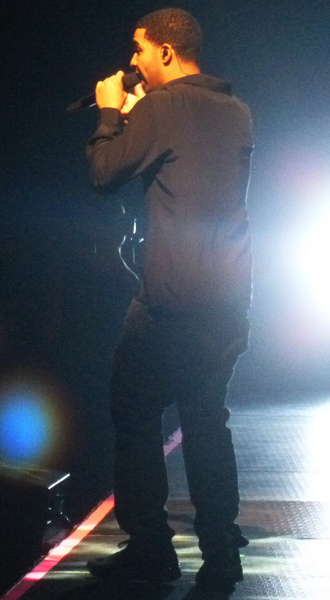 Drake performing on his Club Paradise Tour